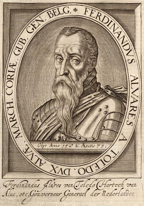 The Duke of Alba